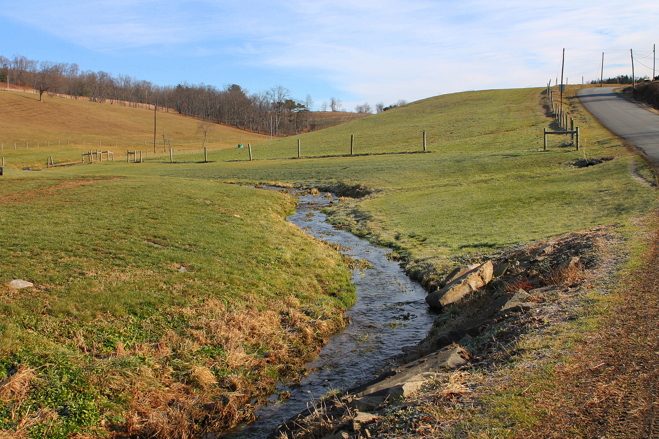 Davis Hollow, a minor tributary of Fishing Creek, looking upstream